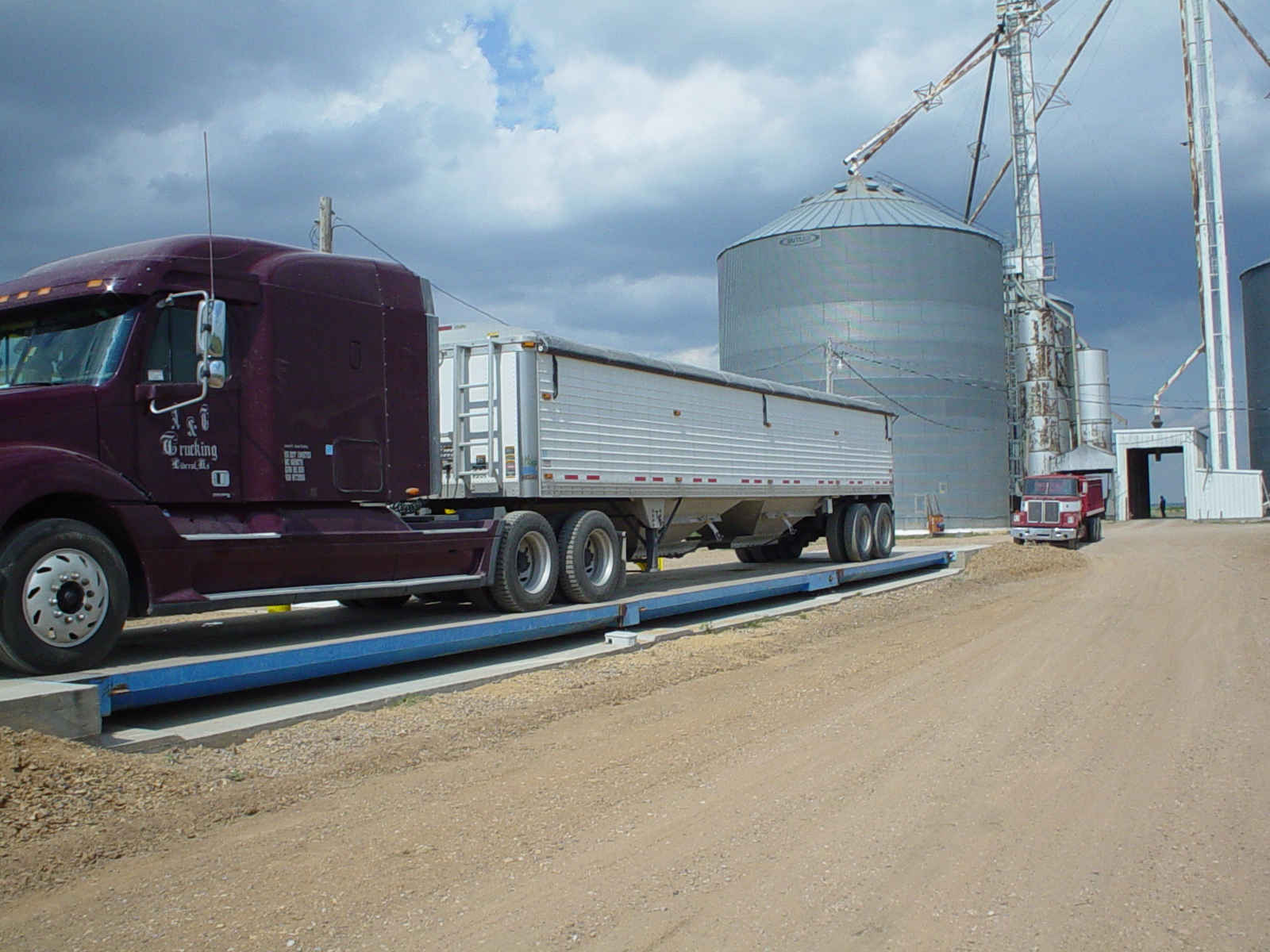 The grain elevator at Floris, Oklahoma, during wheat harvest July 1, 2010.